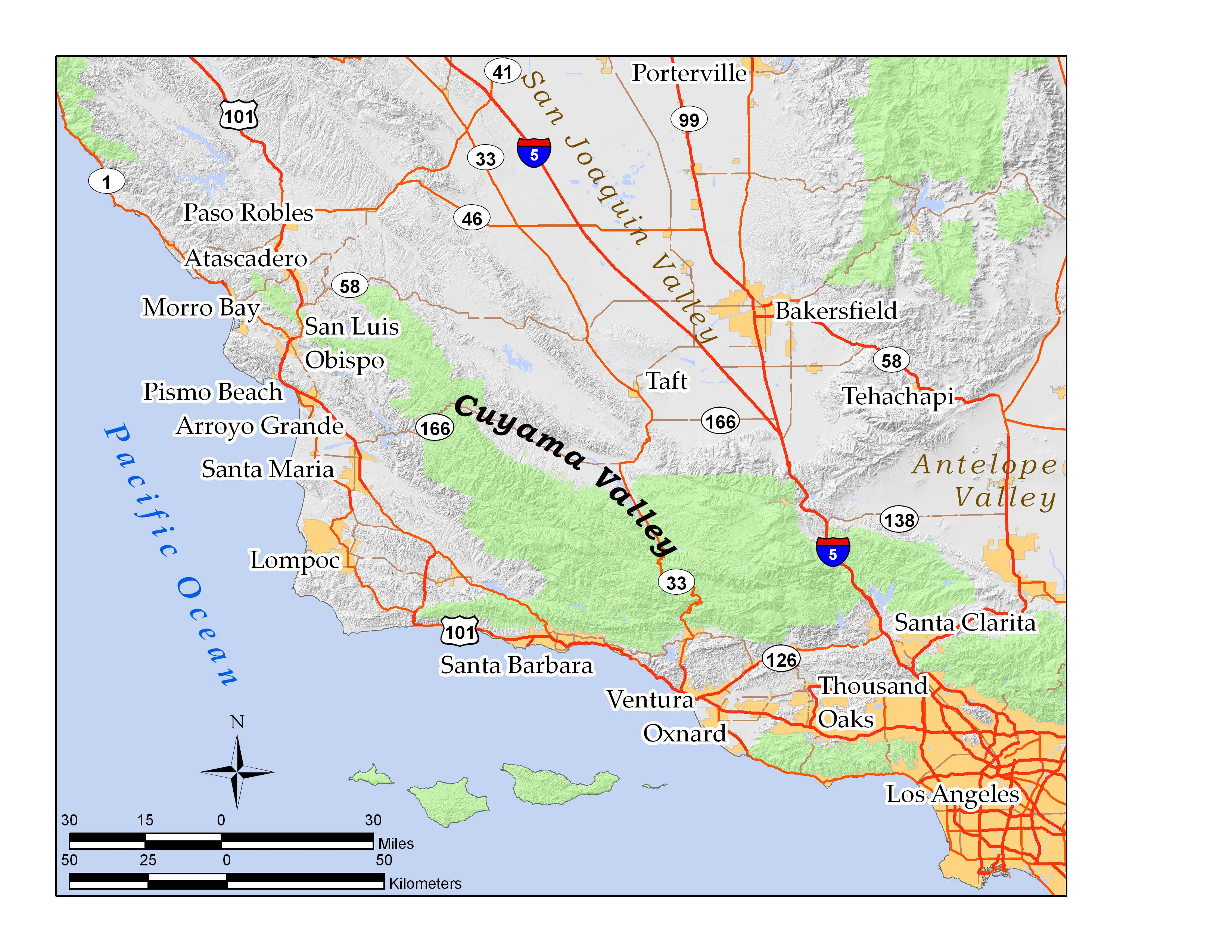 Map of the Cuyama Valley in Southern California. by self; using ArcGIS 9.2; GFDL; all data shown is in the public domain